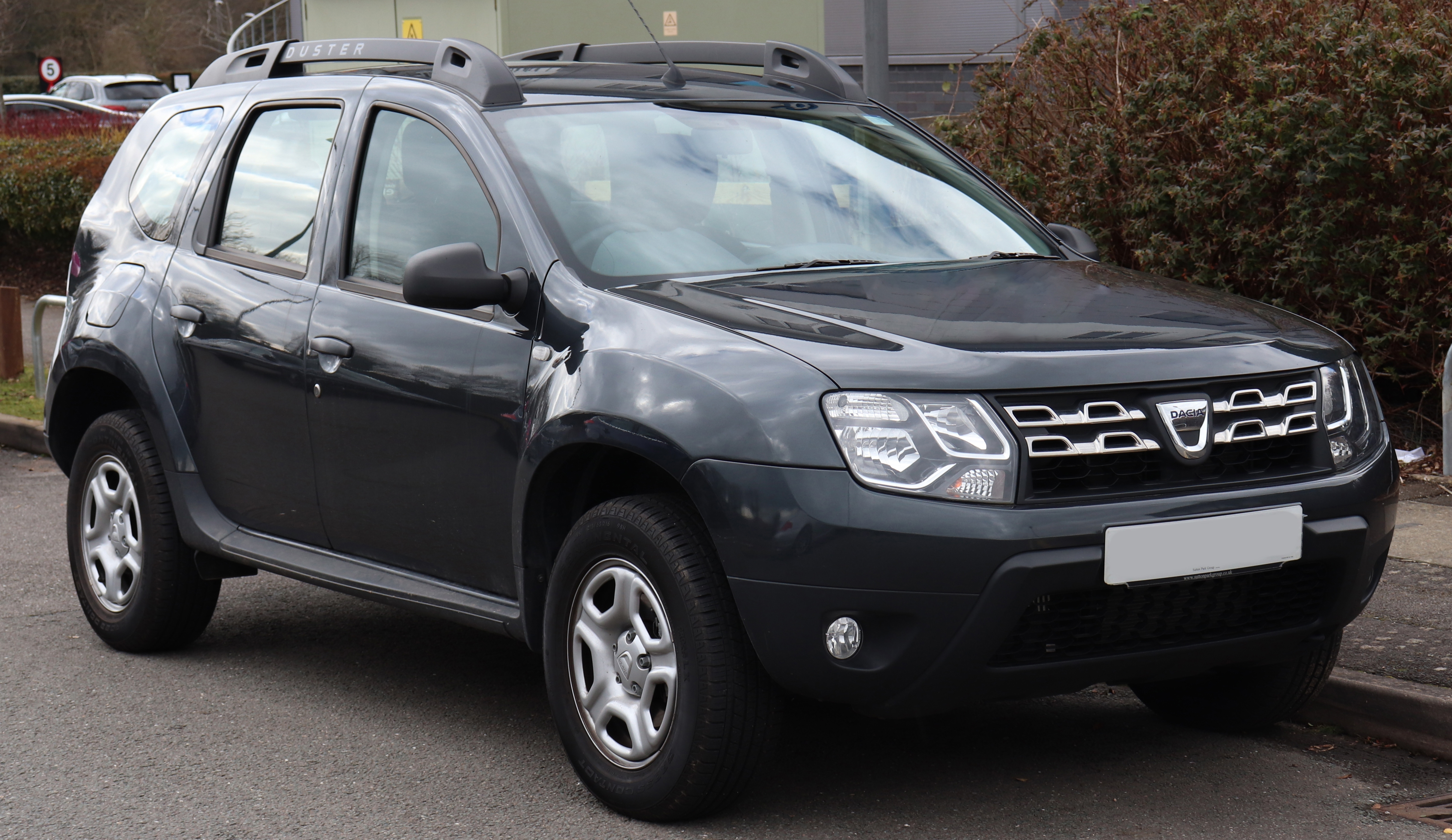 2017 Dacia Duster Ambiance DCi 4X2 1.5 Front Taken in Leamington Spa (It was a great angle ruined by the blue billboard above)